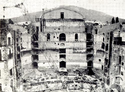 photo of the Tbilisi Opera and Ballet Theatre following fire of 1874